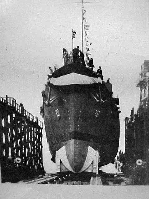 United States Navy destroyer escort USS Ray K. Edwards (DE-237), later converted during construction into high-speed transport USS Ray K. Edwards (APD-96), being launched at Charleston Navy Yard, Charleston, South Carolina